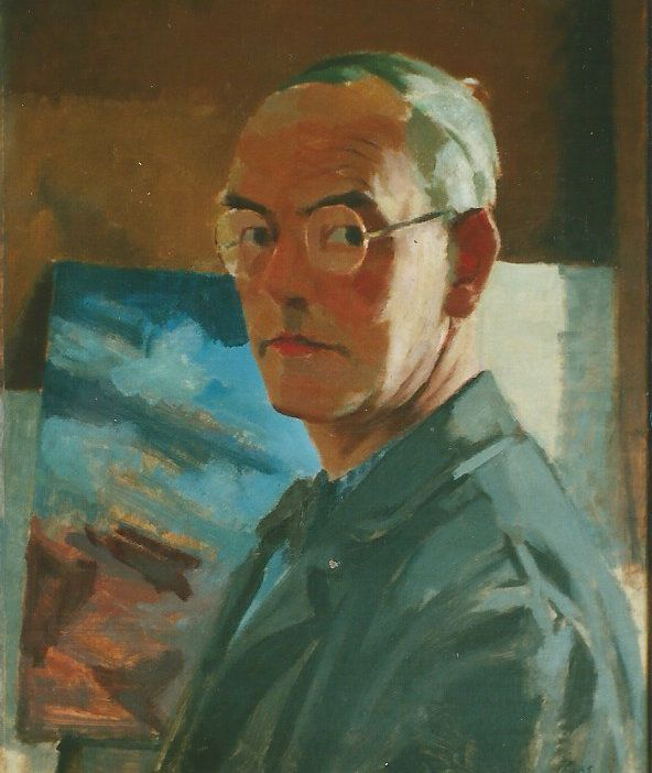 Self portrait of the painter Georg Paul Heyduck (1898-1962), painted 1945.